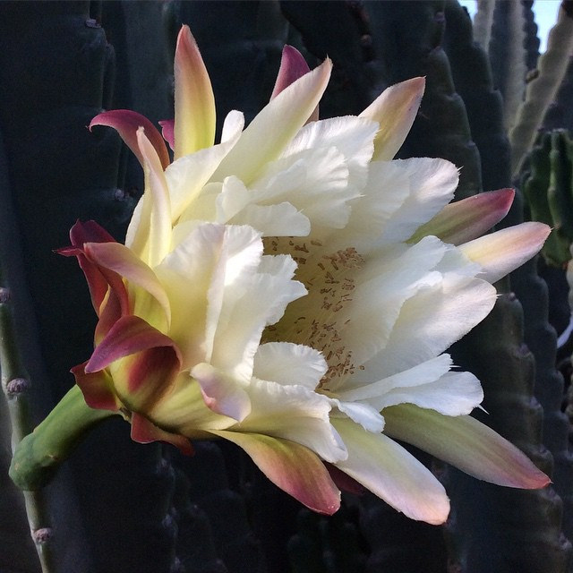 Creus_hildmannianus #cactus